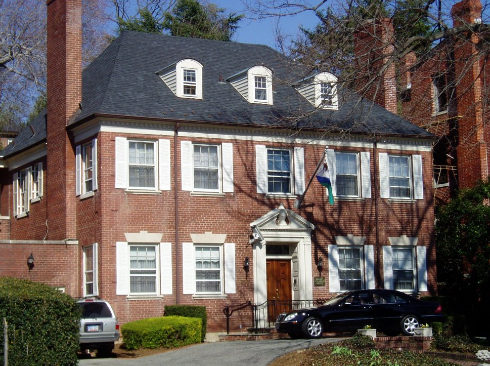 Embassy of Lesotho in Washington D.C., United States